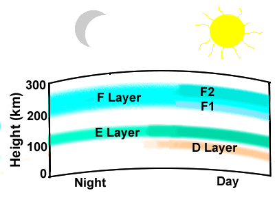 Ionospheric layers. At night the E layer and F layer are present. During the day, a D layer forms and the E and F layers become much stronger. Often during the day the F layer will differentiate into F1 and F2 layers.